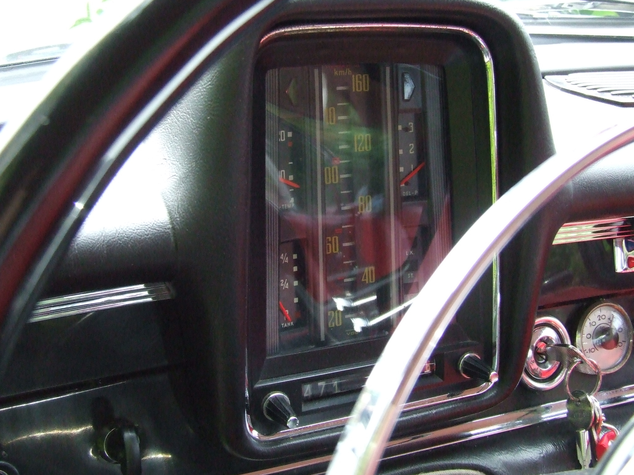 This picture shows the typical vertical style speedometer of all Fintail Mercedes types, also called the "Clinical Thermometer". This one is from a W110 190c, hence the max. speed shown on the scale is 160km/h "only"